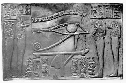 Gold plate covering the embalmer's incisions on the body of queen Duathathor Henuttawy. Found in DB320, 21st dynasty.